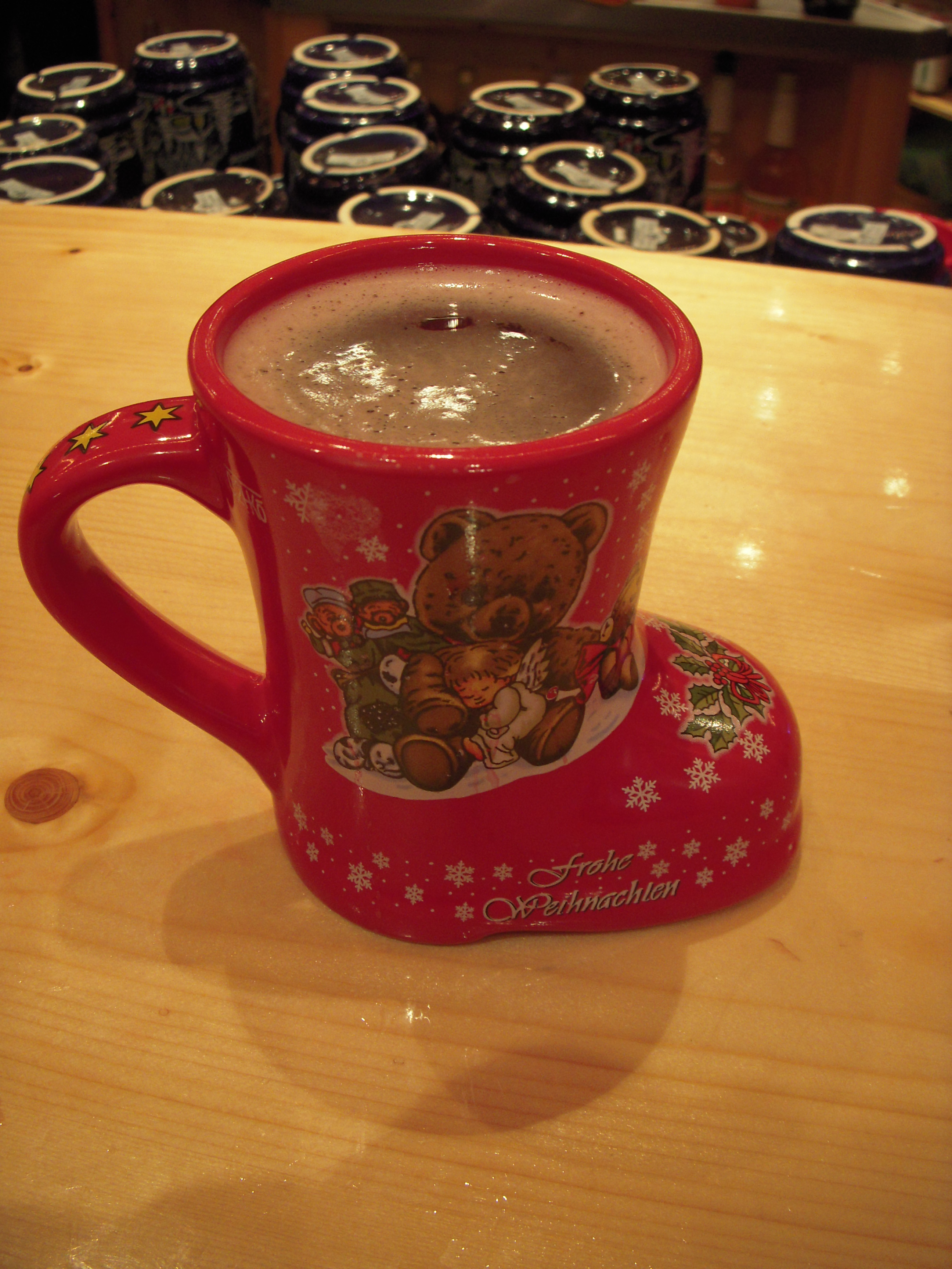 Glühwein at the Christmas Market in front of Schloss Charlottenburg in Berlin. December 13, 2011.